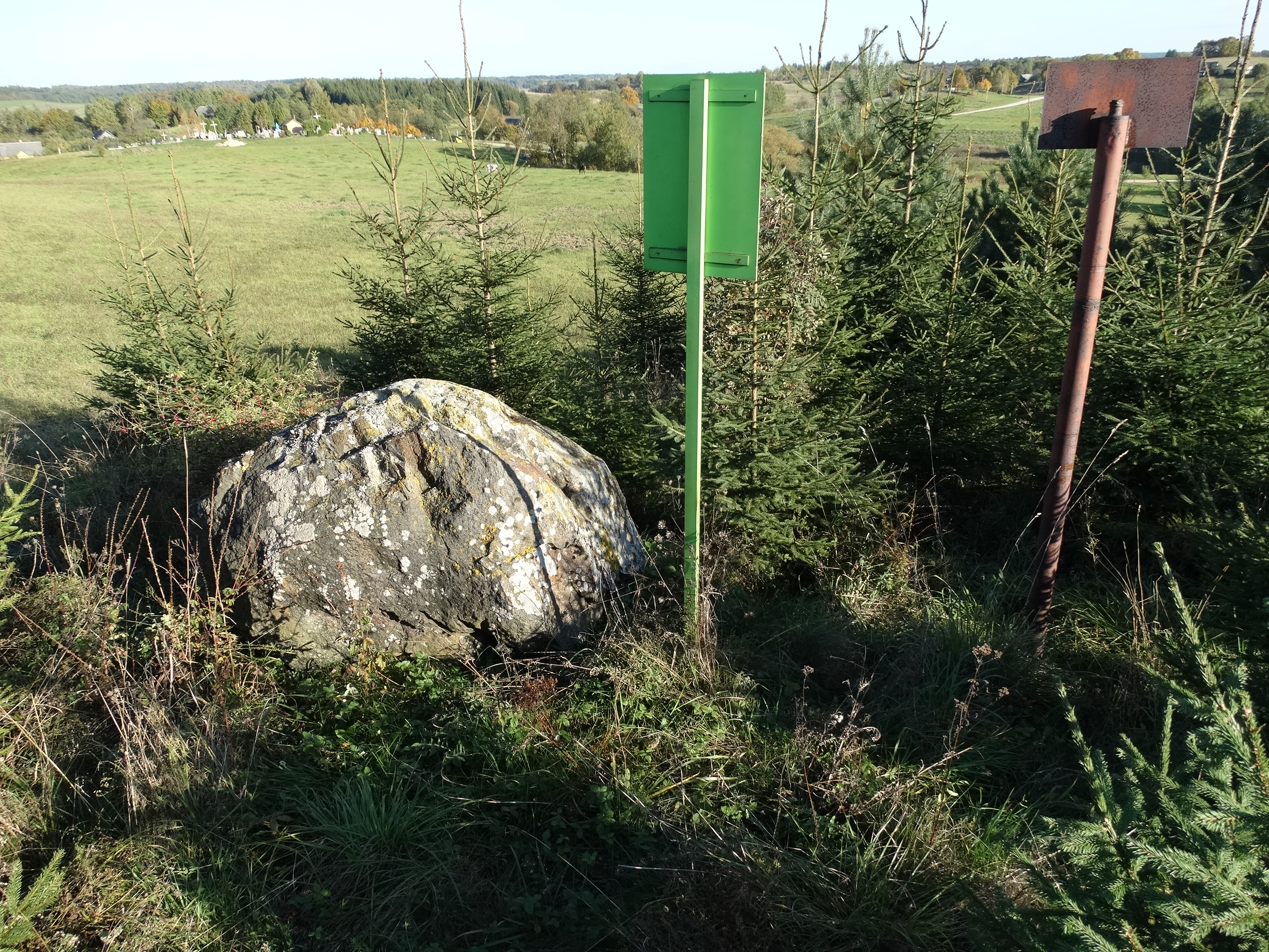 Stone Juozytis, Ringailiai, Kaišiadorys district, Lithuania